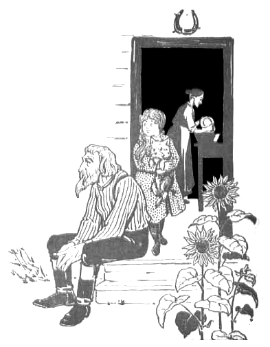 An illustration by W. W. Denslow from The Wonderful Wizard of Oz, also known as The Wizard of Oz, a 1900 children's novel by L. Frank Baum.